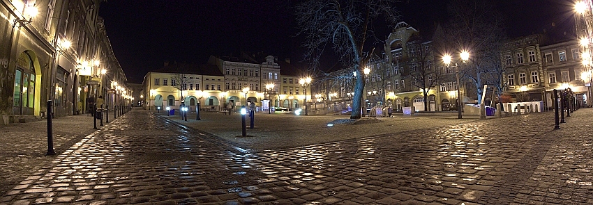 Market Square in Bielsko-Biala at night.